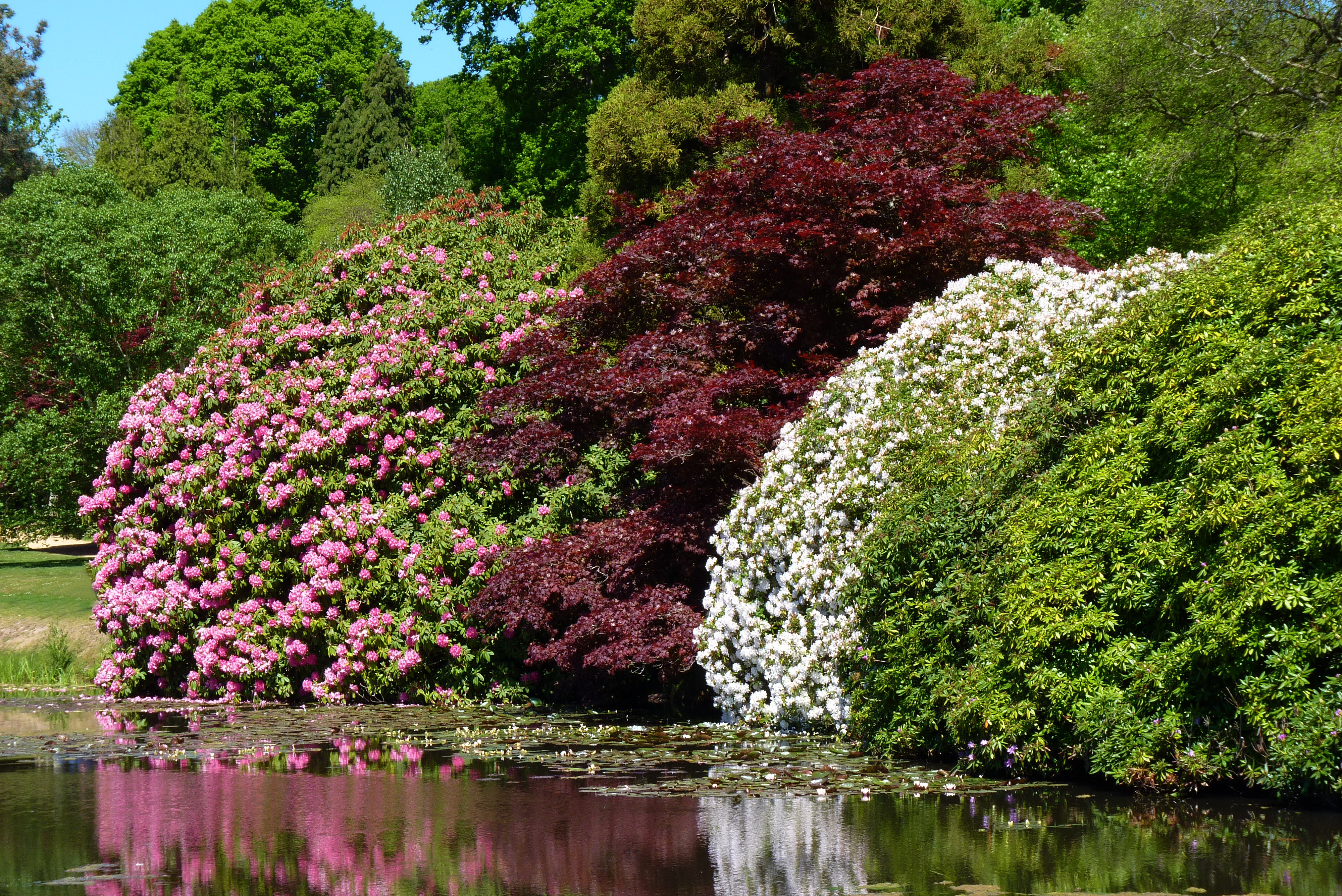 Sheffield Park Garden